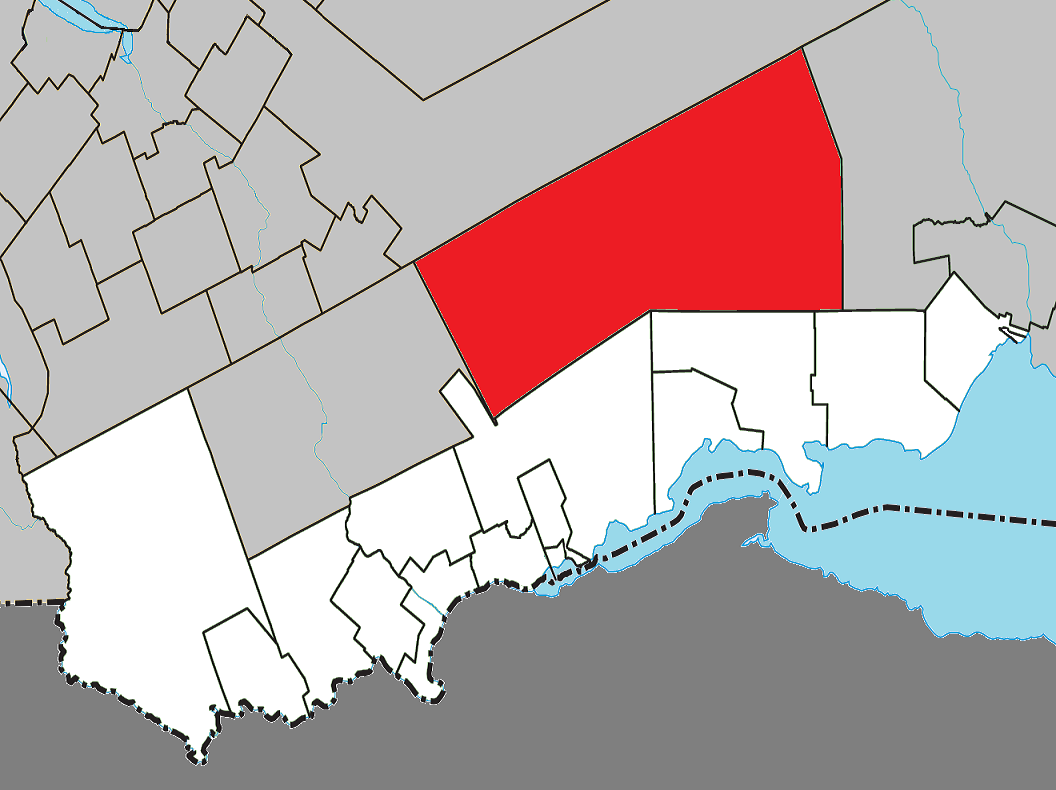 Location of Rivière-Nouvelle, Quebec within Avignon Regional County Municipality.